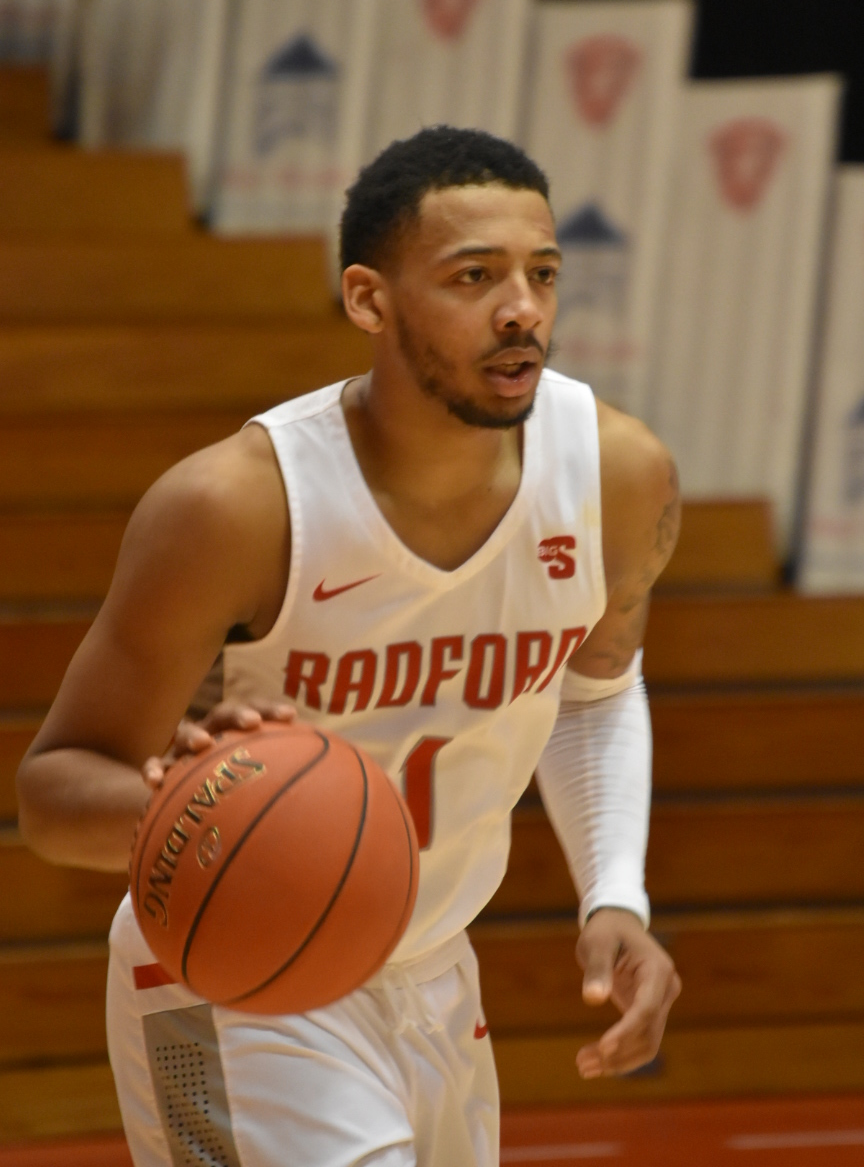 Carlik Jones Handles the Ball for the Highlanders